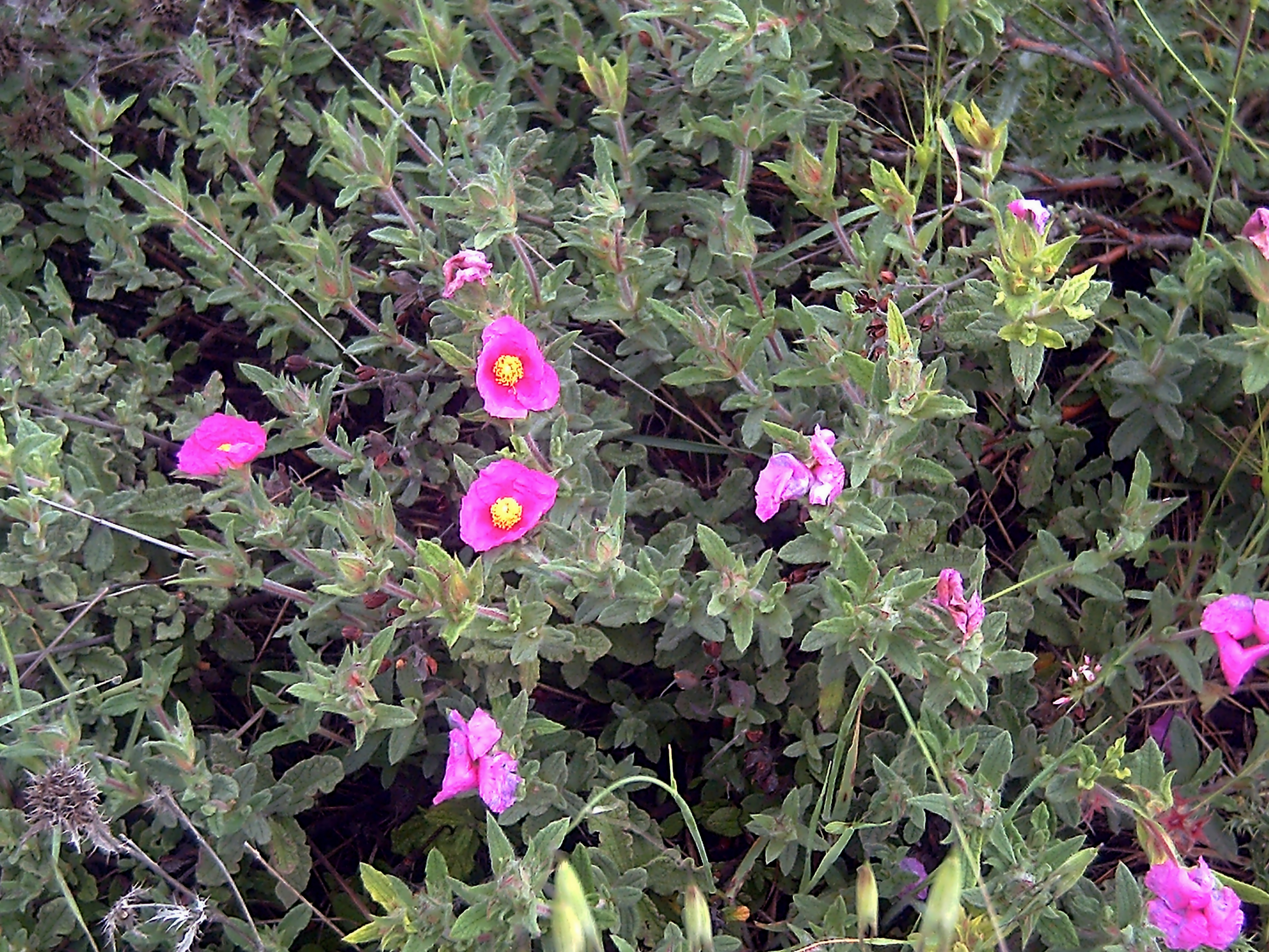 Cistus crispus Habitus Dehesa Boyal de Puertollano, Spain